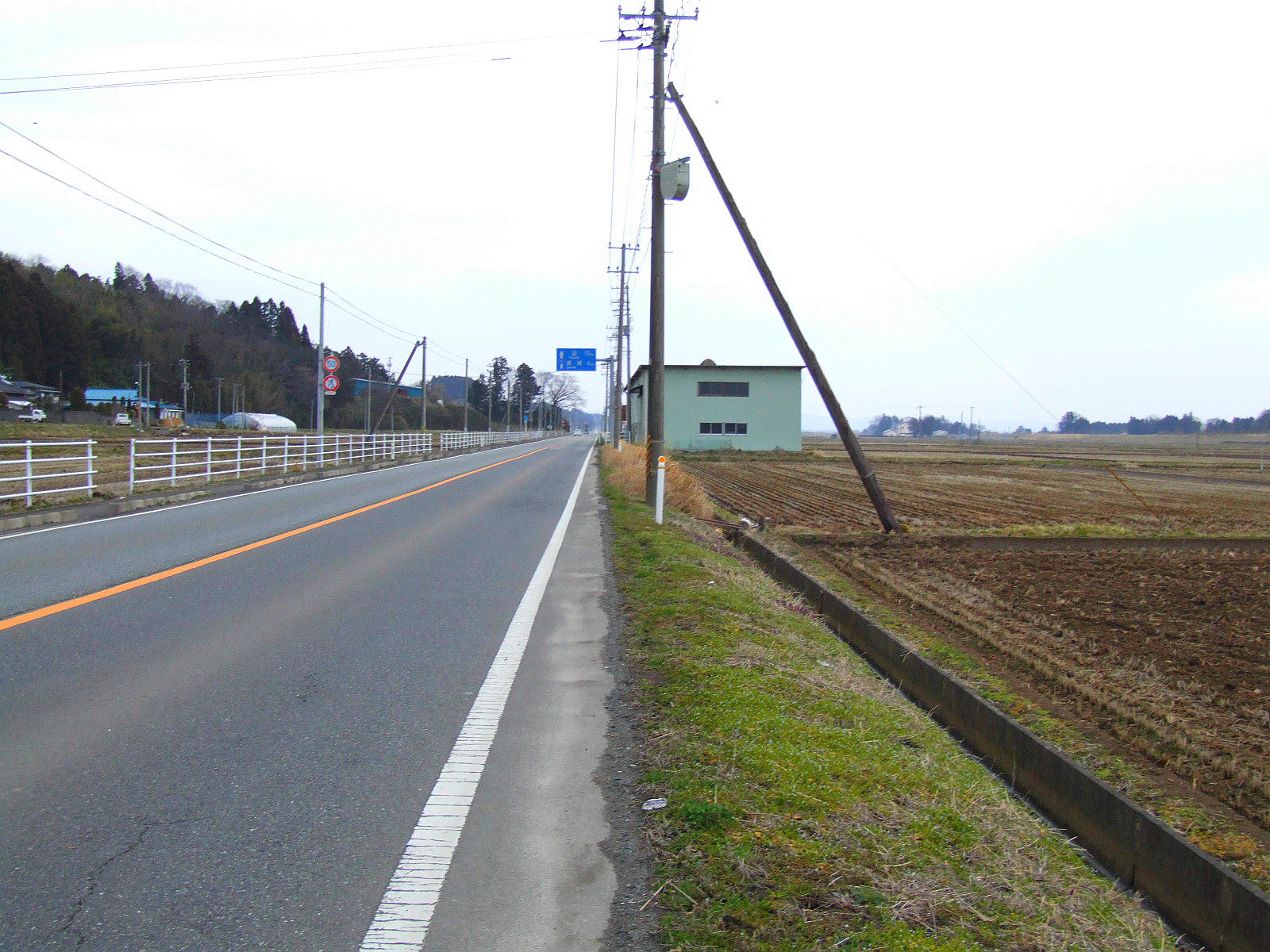 Miyagi prefectural road 1st. Kurihara, Miyagi prefecture, Japan.